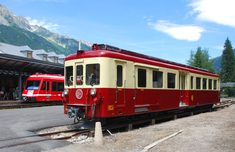 SNCF Z604 EMU (Saint-Gervais - Vallorcine line, France), repainted in 2008 in its original livery (1959 to early 1980's). In the background, one can see the newer Z856.